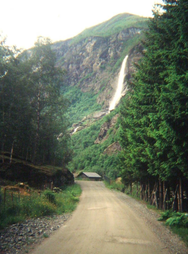 Rallarvegen bicycle path through Flåmsdalen, Norway